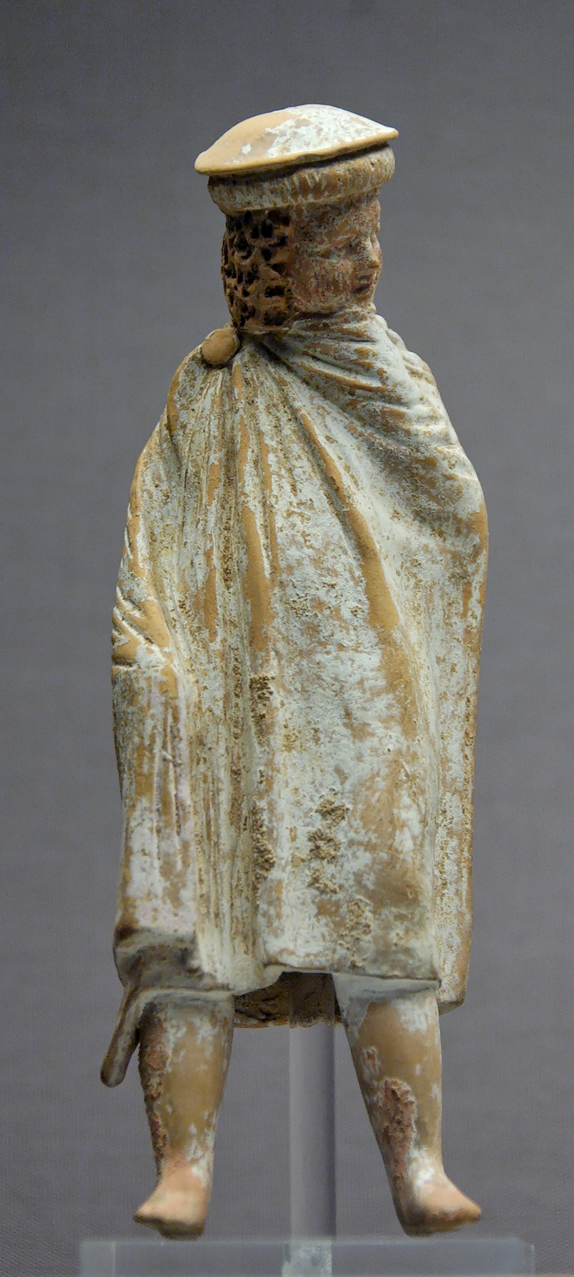 Boy wearing a cloak, boots and a kausia (Macedonian cap). Terracotta, made in Athens, ca. 300 BC.